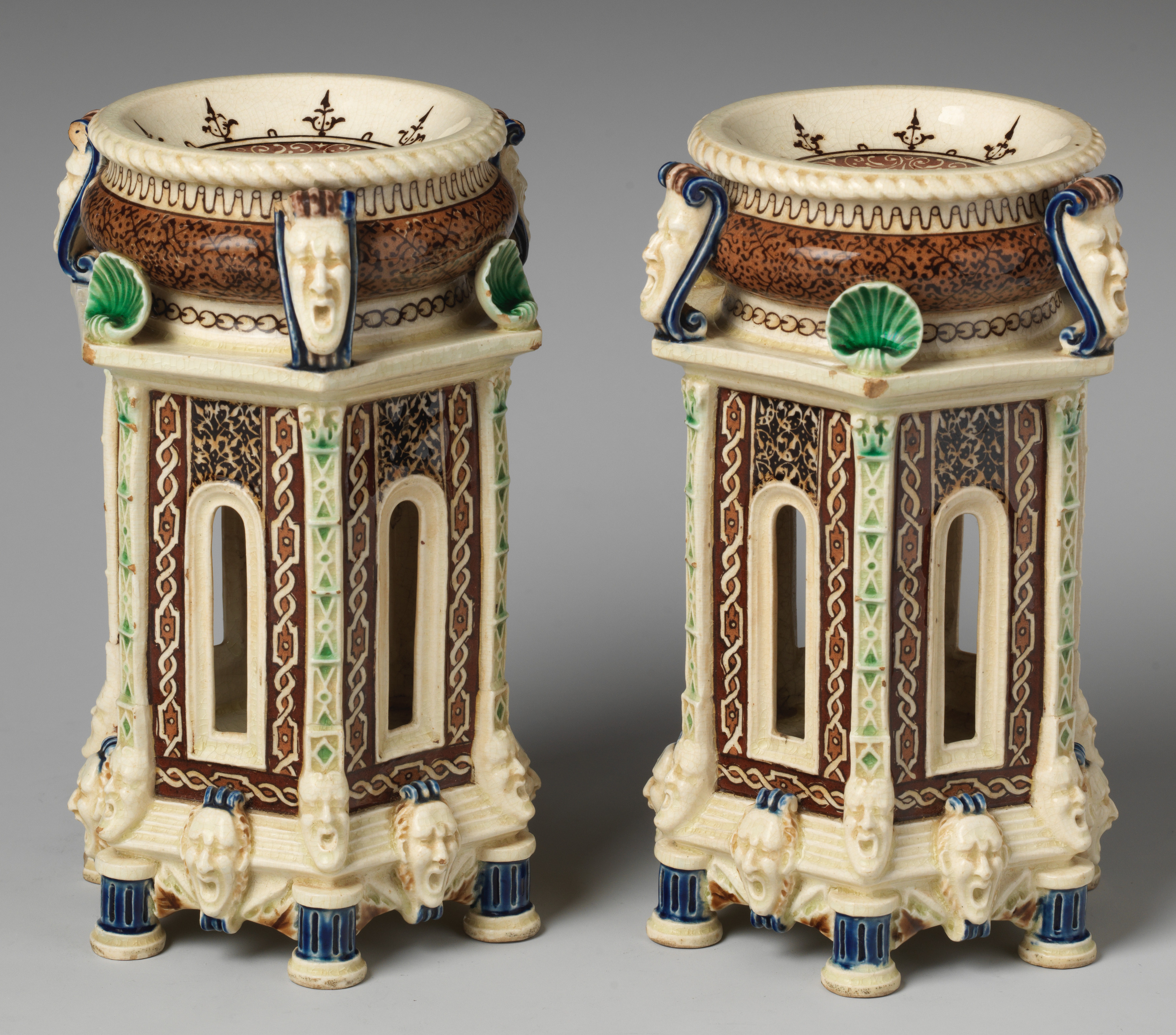 British, Stoke-on-Trent, Staffordshire; Salts; Ceramics-Pottery